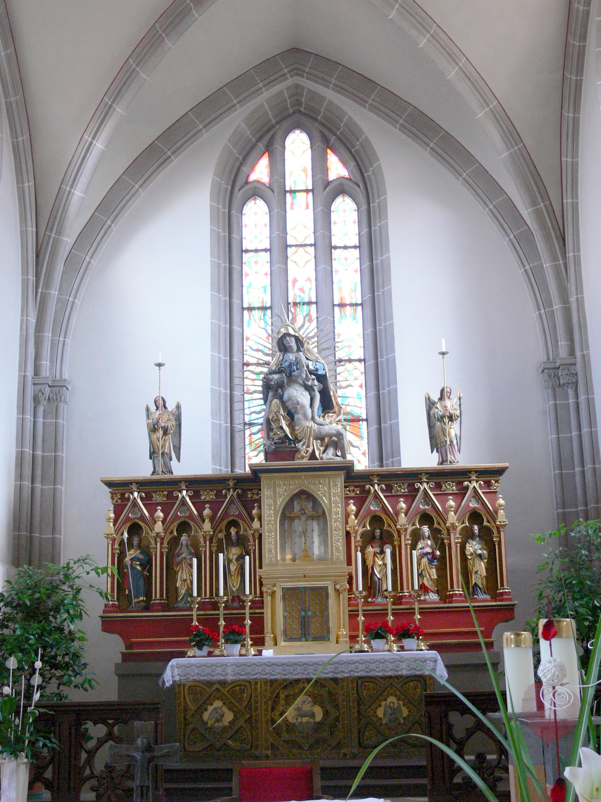 Wolframs-Eschenbach. Church of our Lady: Gothic revival high altar (1877) made by Georg Schreiner ( Regensburg )